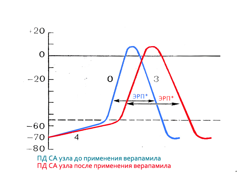 IV class action